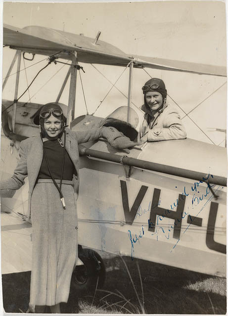 Format: Photograph Notes: Nancy Bird Walton was born in Sydney in 1915. In 1933, at the age of 17, she became the youngest Australian woman to gain a pilot's licence. One year later she obtained her commercial licence. In 1937-38 she operated a charter service in Queensland followed by a 2 year world tour studying civil aviation. In 1950 she founded the Australian Women's Pilots' Association. She won the Ladies Trophy South Australian Centenary Air Race from Brisbane to Adelaide in 1936 and came 5th in the All Women's Transcontinental Air Race, America in 1958. She was appointed AO in 1990. Nancy Bird Walton died in Sydney on 13 January 2009 at the age of 93. She was given a State Funeral in St Andrew's Cathedral, Sydney on Wednesday 21 January 2009. The new Qantas A380 named for her flew over Sydney during the funeral. Jocelyn Howarth (1912-1963) was an Australian actress who was a leading lady in Hollywood B films of the 1940s. She used the screen name Constance Worth. Find more detailed information about this photograph: .au/item/itemDetailPaged.aspx?itemID=153288 Search for more great images in the State Library's collections: .au/search/SimpleSearch.aspx From the collection of the State Library of New South Wales